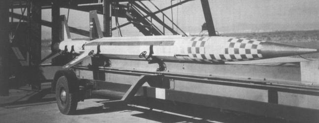 An Aerobee sounding rocket